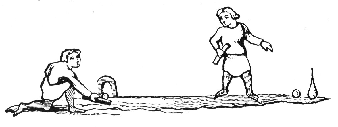 A game of English ground billiards, ca. 1300s. Woodcut reprinted in 1801.